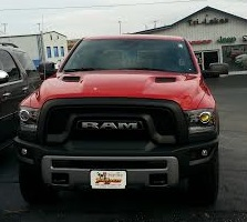 2016 RAM Rebel unique grille